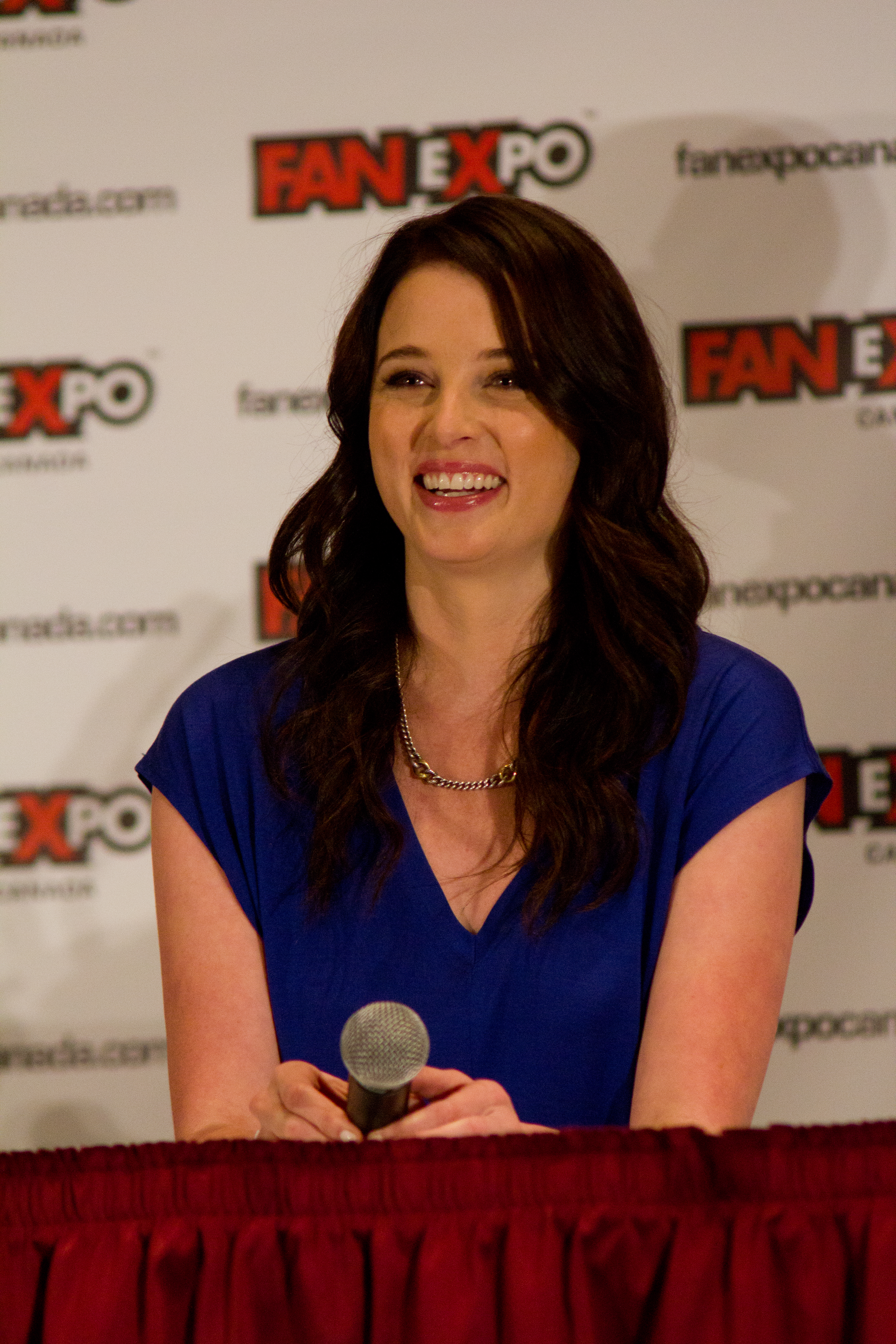 Actress Rachel Nichols at the 2012 FanExpo Canada